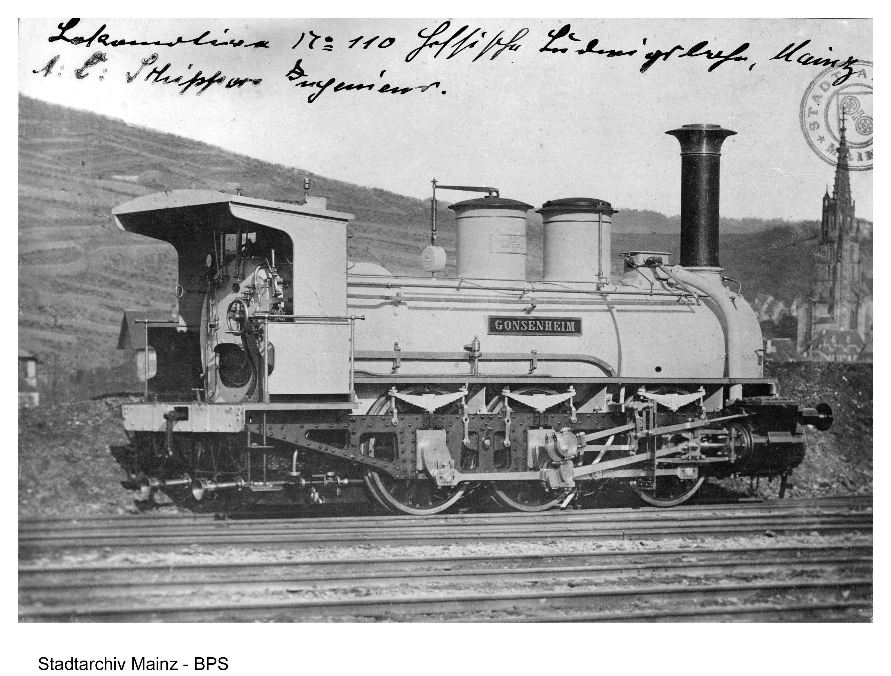 Locomotive No. 110 of Hessische Ludwigsbahn, Mainz